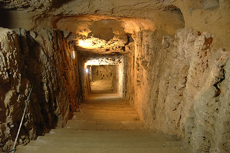 Catacombs, Sarapaion, Alexandria, Egypt